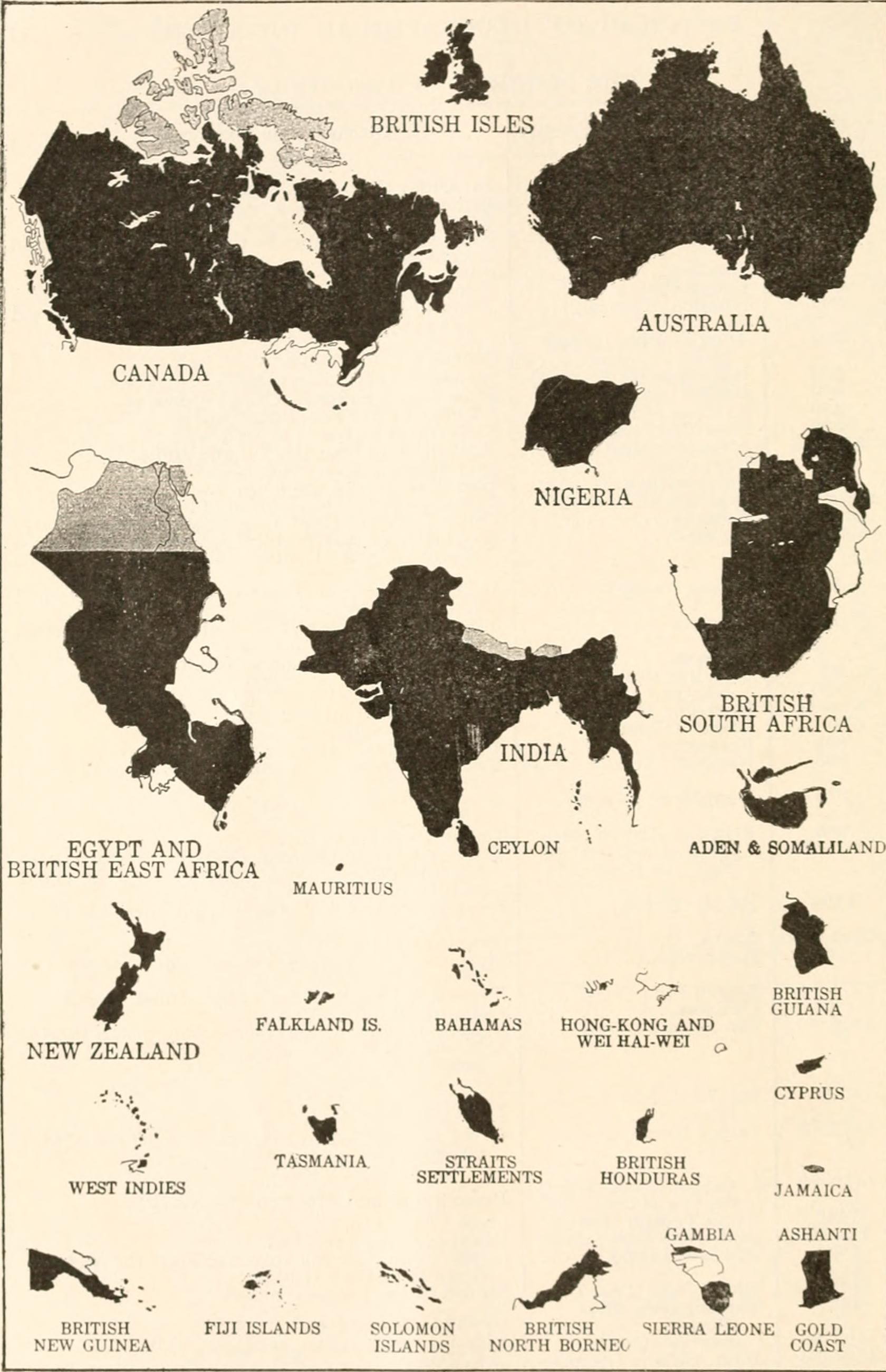 Title: Our country and its resources; Year: 1917 (1910s) Authors: Hopkins, Albert A. (Albert Allis), 1869-1939 Subjects: United States. (from old catalog) Publisher: New York, Munn & co., inc. Text Appearing Before Image: e Islands. North Cape of Europe rounded. I discovers Iceland. Visited by Irish monks about795. Greenland coast. Rediscovered by Erik the Red(983). Colonizes Greenland. Discovers Newfoundland (Helluland), Nova Sco-tia (Markland), and coast of New England(Vinland) (?). Geographer to King of Sicily, produces his geog-raphy. Trading merchants discover Siberia. Reaches Karakorum, the ancient seat of theMongol Empire. Travels in Central Asia, China, India, Persia. Canaries, Azores, etc. Travels through the whole Mohammedan World,N. Africa, E. Africa, S. Russia, Arabia, Indiaand China. ? Travels in India. Gives an impetus to Portuguese voyages of dis-covery. Pono Santo and Madeira discovered. Cape Verde, etc. Coast of Guinea reached. Sends Columbus his map showing the western route to Cathay (China).Mouth of the Congo reached. Hounds Cape of Good Hope America, West Indies. Trinidad Cuba, etc. Sails along E. coast of America from Labrador as far as Florida.Route to India by (ape of Good Hope, Text Appearing After Image: TASMANIA STRAITS BRITISH SETTLEMENTS HONDURAS JAMAICAGAMBIA ASHANTI BRITISH FIJI ISLANDS SOLOMON BRITISH SIERRA LEONE GOLD NEW GUINEA ISLANDS NORTH BORNEC COAST Great Britain and its Possessions. UNITED STATES